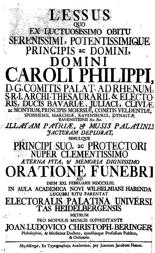 Buchtitelblatt, Ludwig Christoph Beringer (1709-1746), Professor der Medizin an der Uni Heidelberg